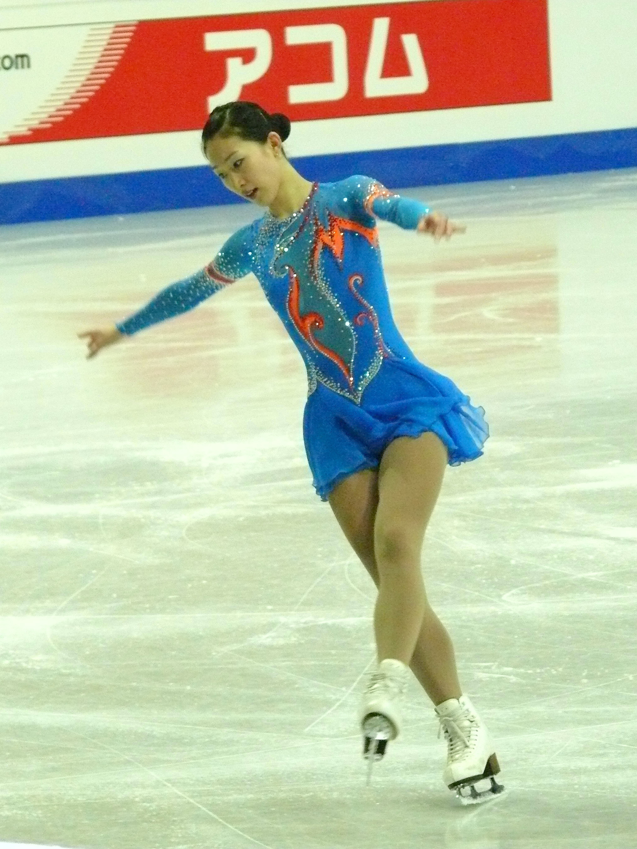 Liu Yan (CHN) at her short program at the World Championships in Figure Skating 2008 in Göteborg (SWE)